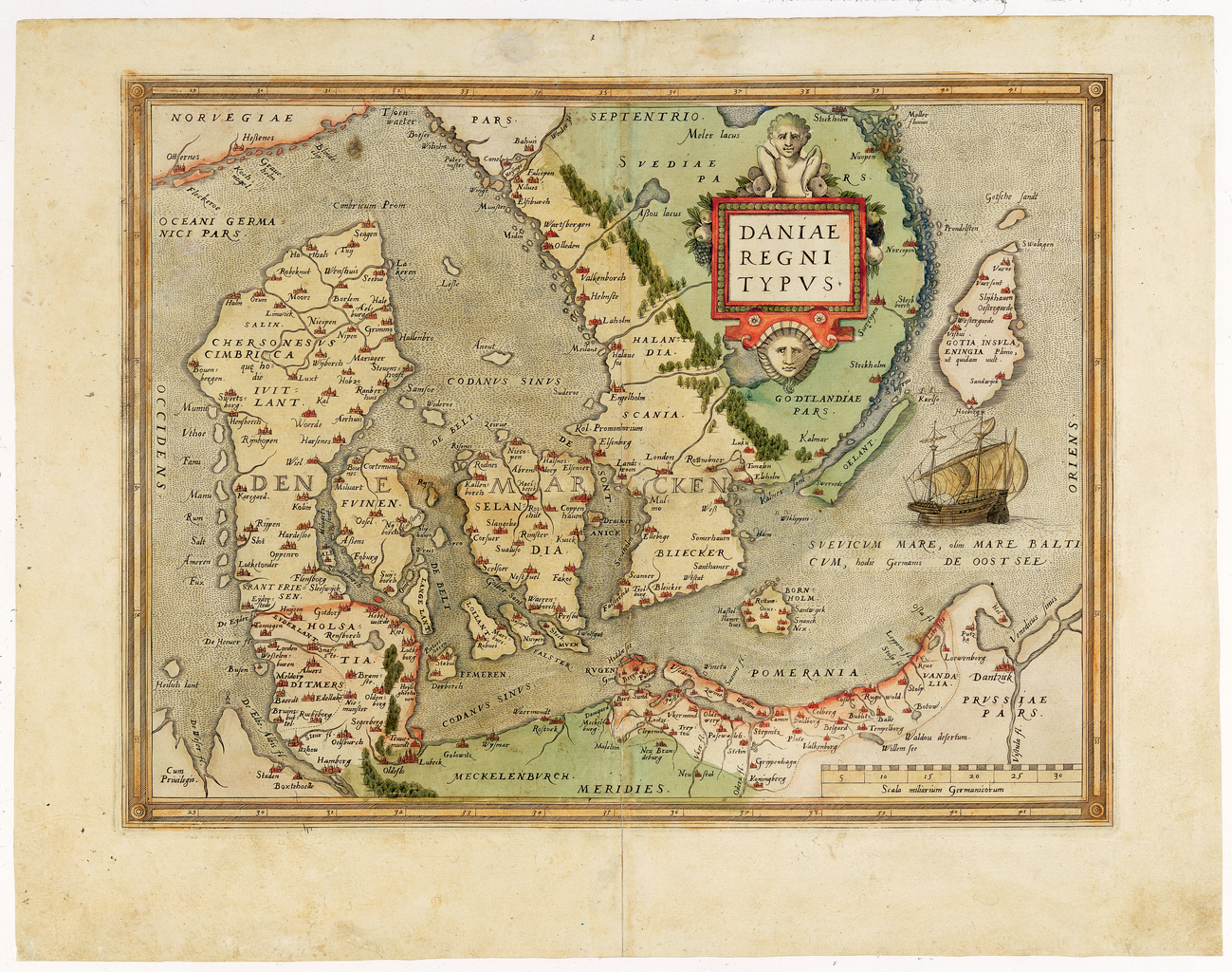 The Flemish scholar and geographer Abraham Ortelius (1527–98) published the first edition of his Theatrum orbis terrarum (Theater of the world) in 1570. Containing 53 maps, each with a detailed commentary, it is considered the first true atlas in the modern sense: a collection of uniform map sheets and accompanying text bound to form a book for which copper printing plates were specifically engraved. The 1570 edition was followed by editions in Latin, Dutch, French, German, and Spanish, with an ever-increasing number of maps. Shown here is the first known printed map of Denmark, which appeared in the 1570 edition. The map was based on a 1552 map of the same title by the Danish cartographer Marcus Jordan, with other features taken from a 1543 map by the Dutch printmaker, painter, and cartographer Cornelis Anthonizoon (1505–53).